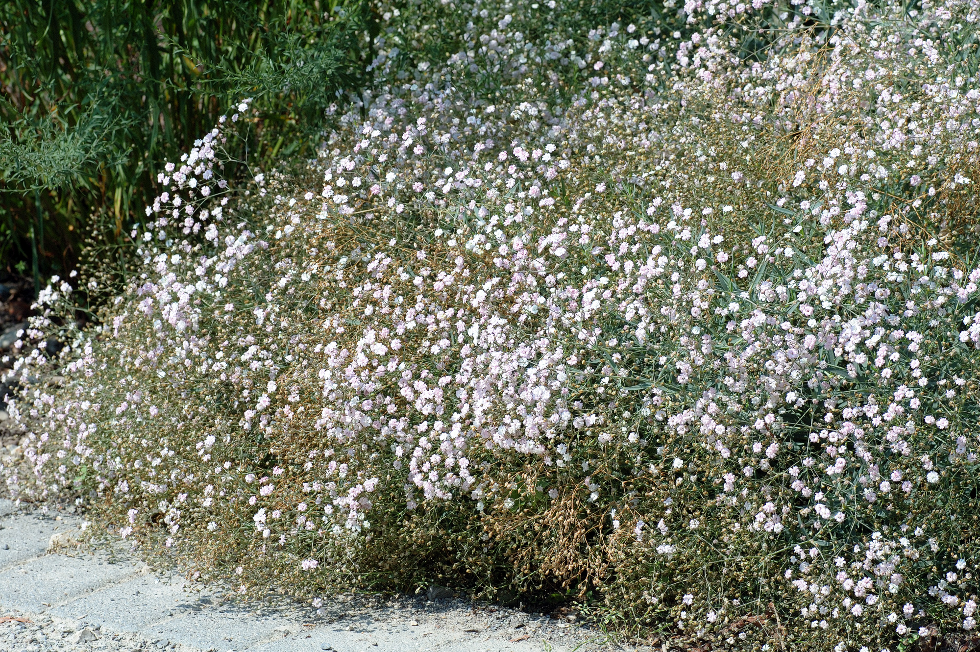 This image shows the Creeping baby's breath (Gypsophila repens). It has been taken at the island Mainau.